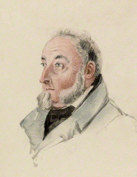 Portrait of General sir Willoughby Cotton